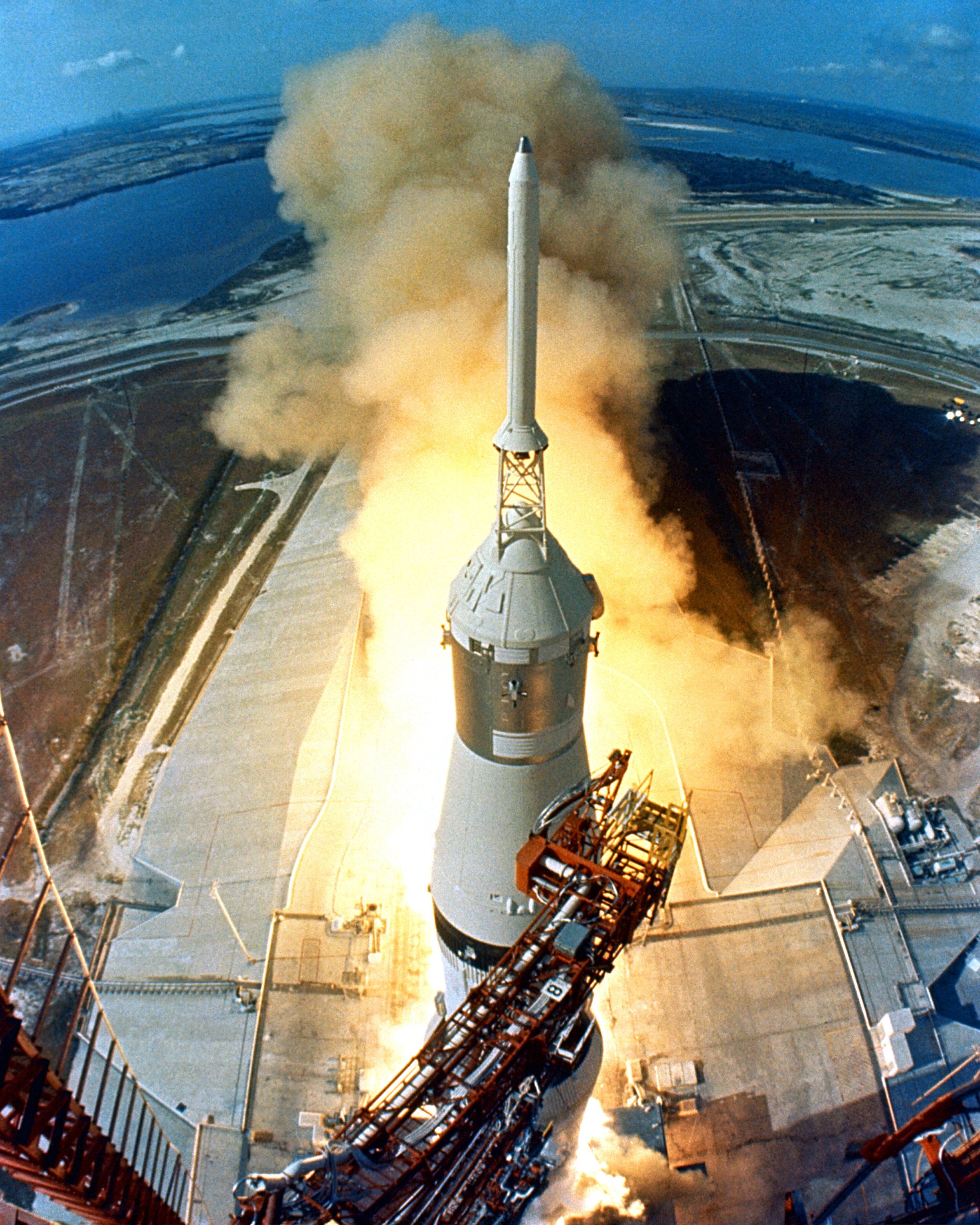 At 9:32 a.m. EDT, the swing arms move away and a plume of flame signals the liftoff of the Apollo 11 Saturn V space vehicle and astronauts Neil A. Armstrong, Michael Collins and Edwin E. Aldrin, Jr. from Kennedy Space Center Launch Complex 39A.